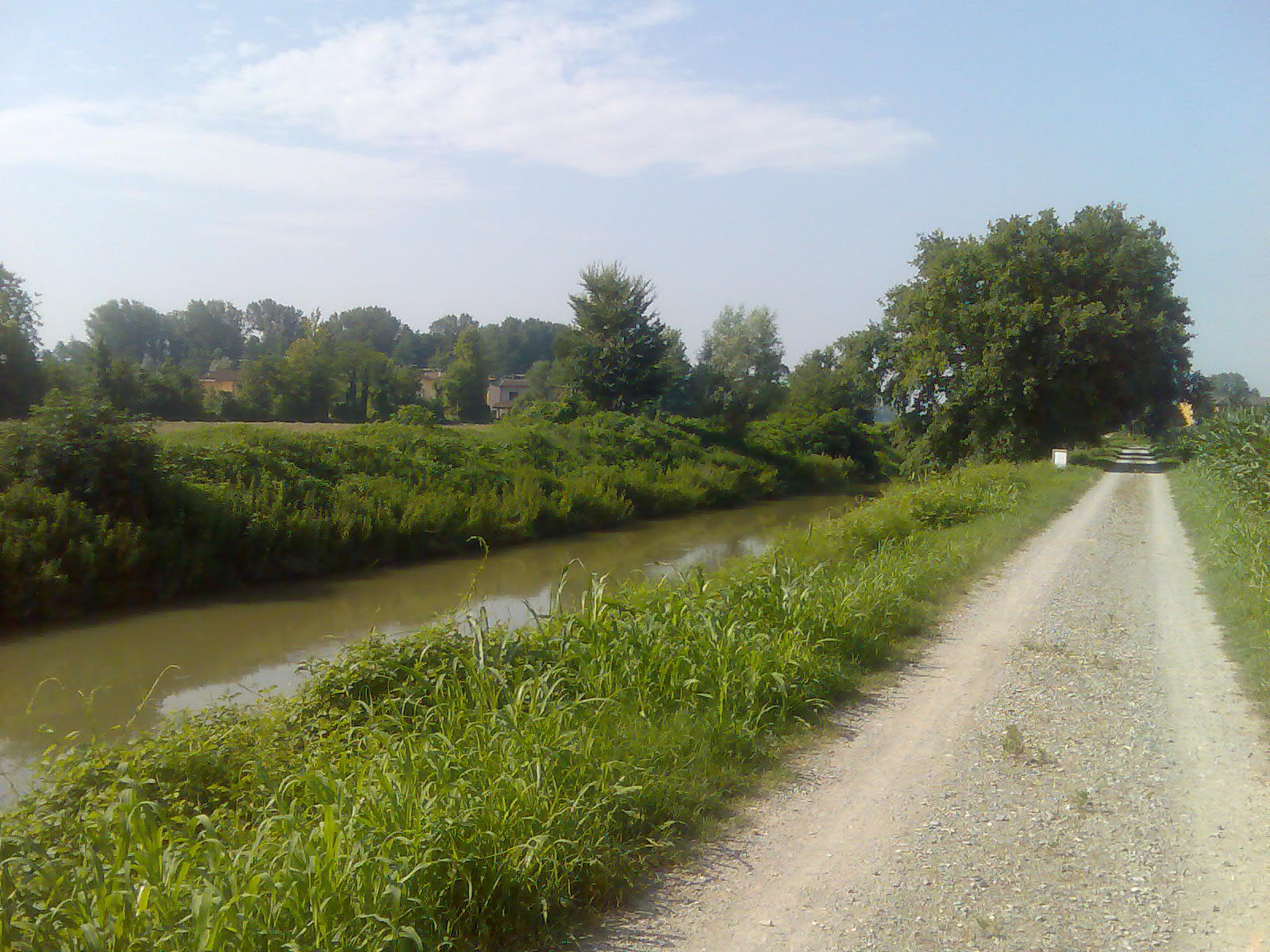 Serio Morto river, Lombardy.